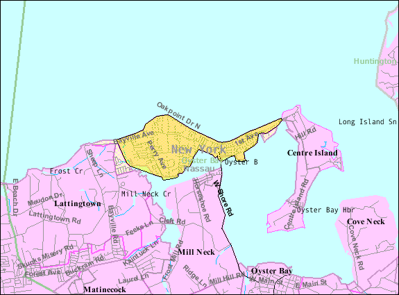 U.S. Census 2000 reference map for Bayville, New York